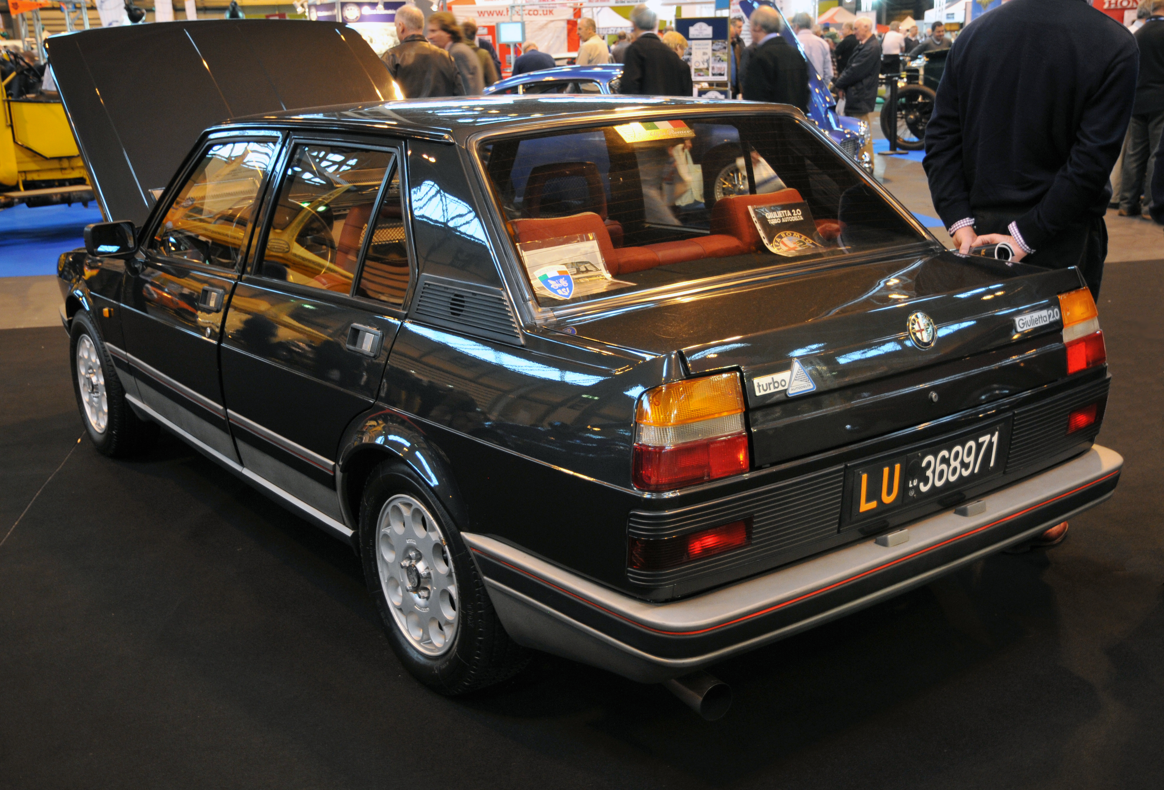 Alfa Romeo Giulietta Turbodelta at the 2010 NEC Classic Car Show